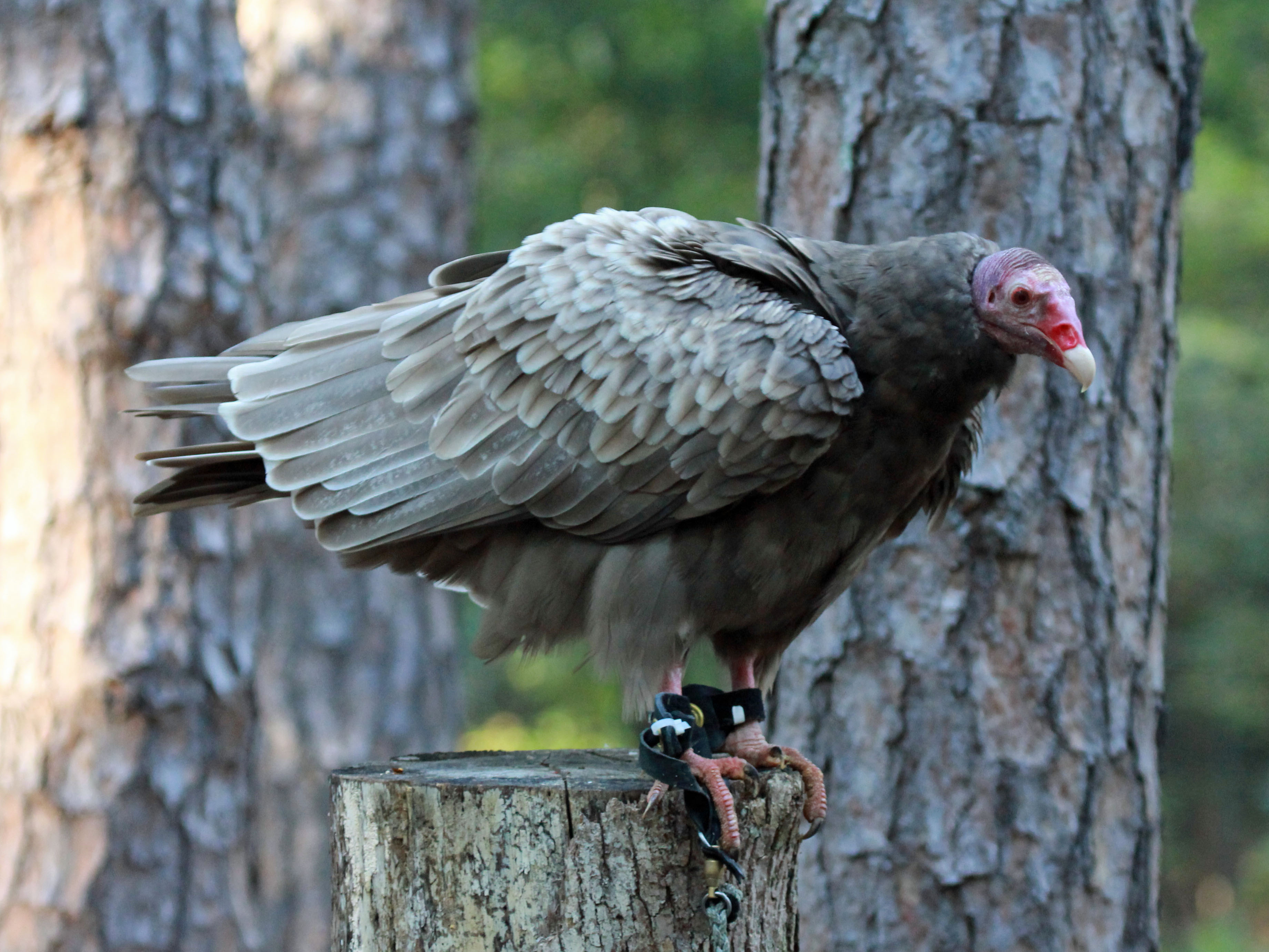 Turkey Vulture (Cathartes aura) - Carolina Raptor Center at Huntersville, North Carolina. Light colored birds like this are termed Leucistic Turkey Vultures.